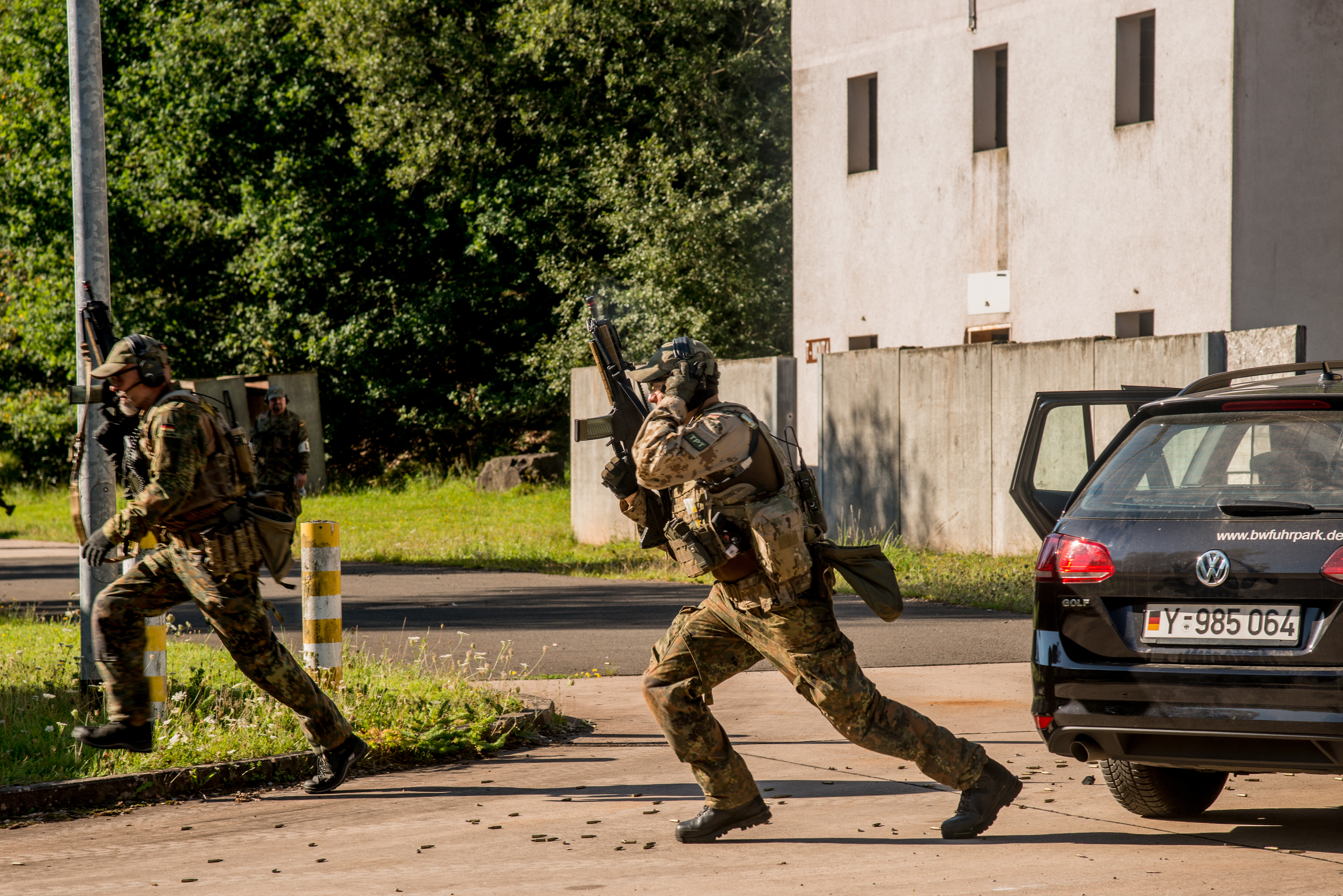 German Soldiers assigned to the Zentrum für Operative Kommunikation der Bundeswehr (Center of Operative Communication), Mayen, Germany, trained at the Urban Operations Site, Baumholder Local Training Area, Baumholder, Germany 23 August 2017. Purpose of the training was to learn and practice proper movement techniques in an urban environment and the incorporation of new weapons. TPT stand for Tactical PSYOPS (Psychological Operations) Team.